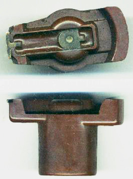 distributor rotor Scan, upload by MH 18:15, 2004 Aug 22 (UTC)